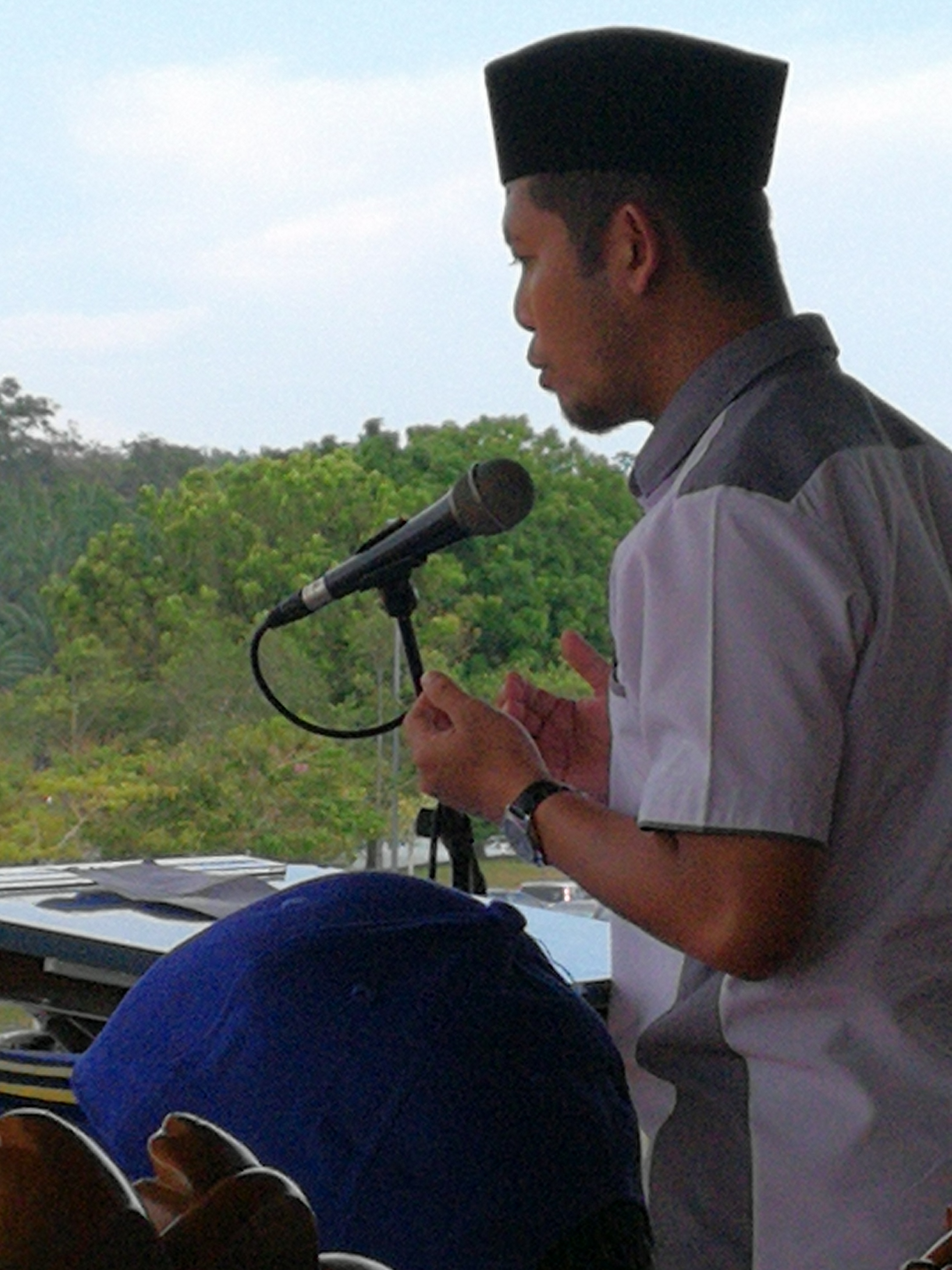 Pesuma32 Doa